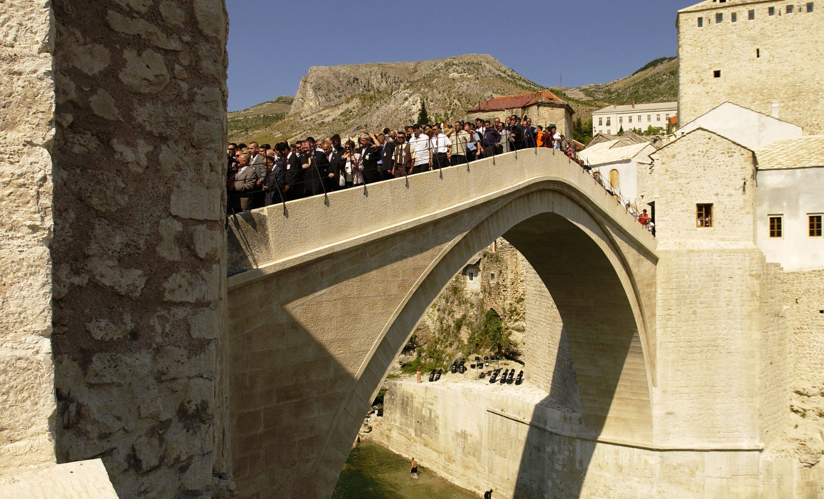 Locals walk over for their very first time Stari most during the opening in Mostar, Bosnia-Herzegovina. The "Old Bridge", or Stari most, which is the towns symbol, was destroyed during the Balkan war in 1993. It was officially reopened for the public on July 23, 2004 after several years of reconstruction.